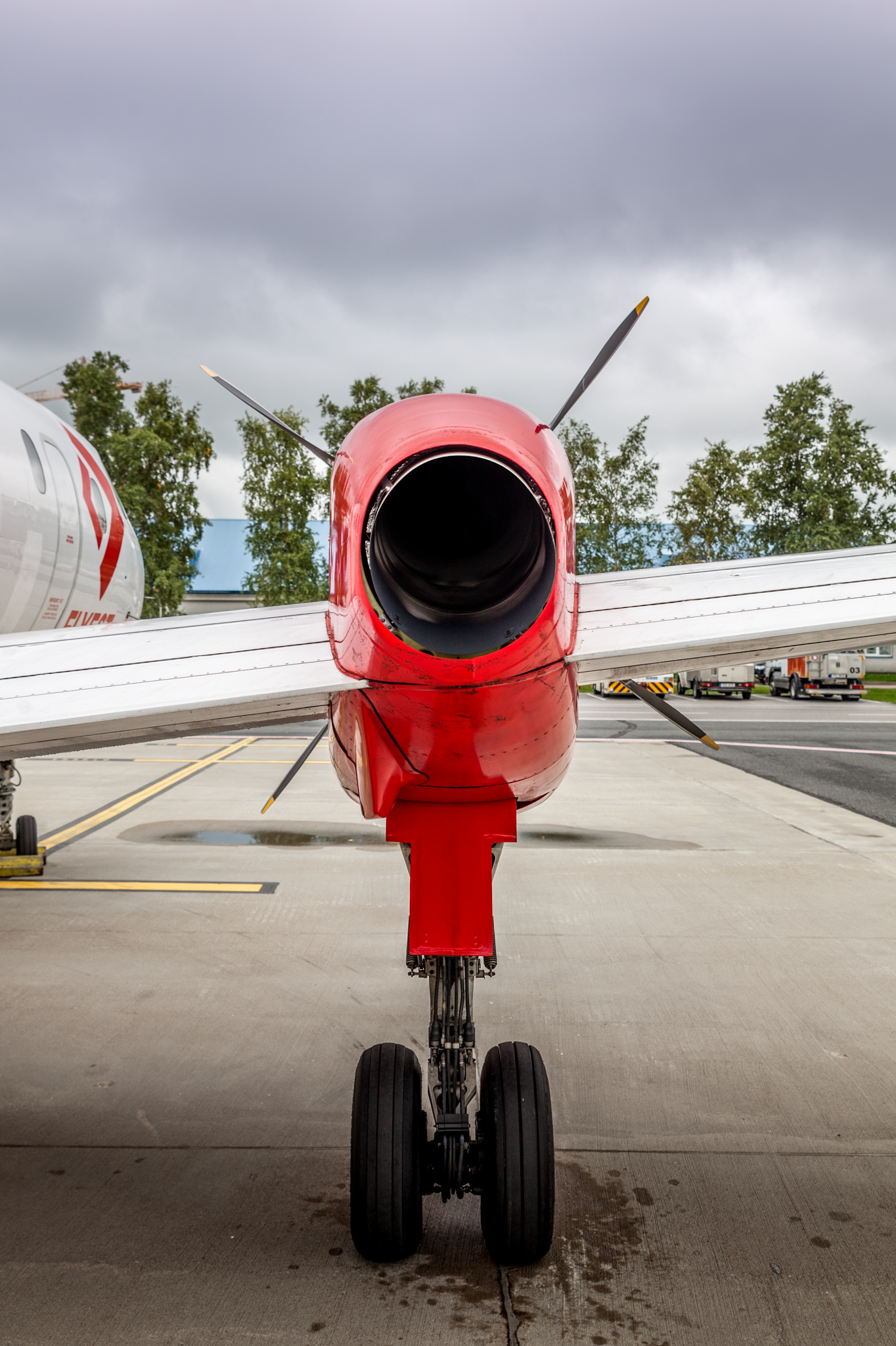 Airest's SAAB 340